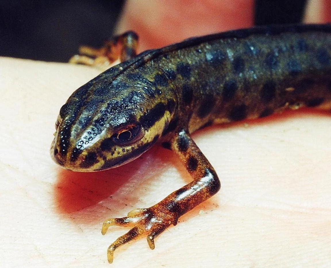 Male Smooth Newt (Triturus vulgaris), picture taken in central Germany.